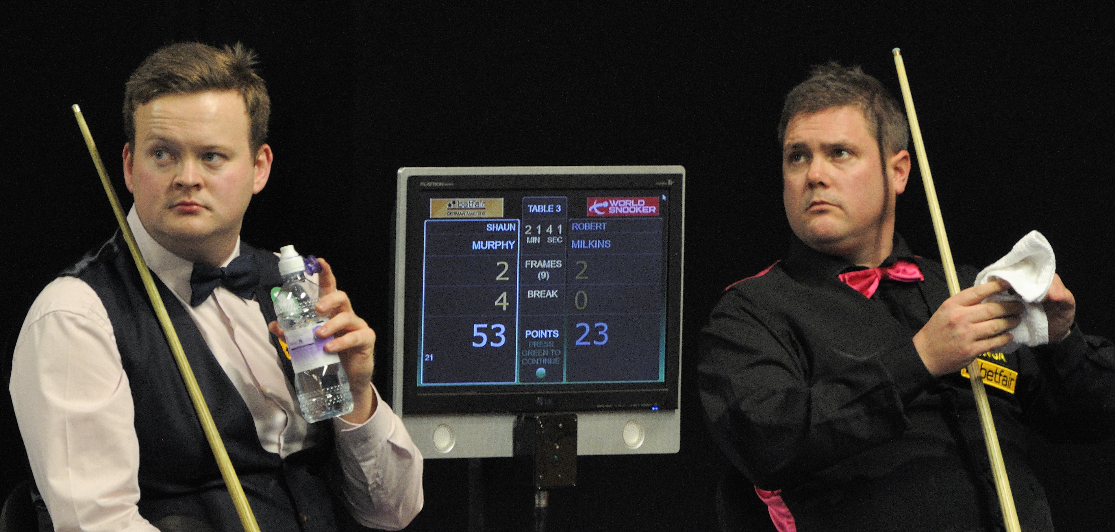 Picture taken in Berlin during the Snooker German Masters in 2013. Robert Milkins, Shaun Murphy.